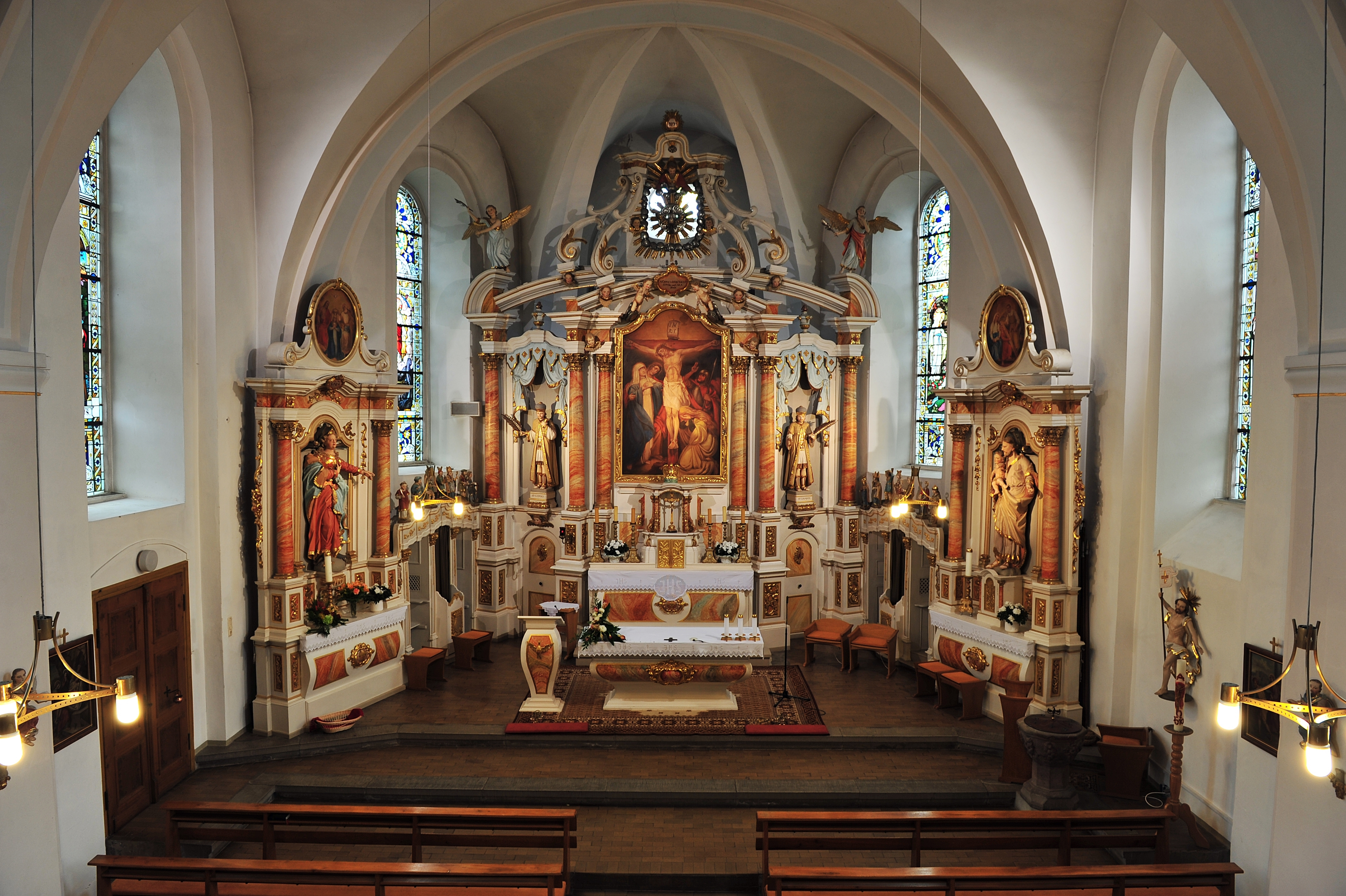 Church in Silberhausen (Eichsfeld) in Thuringia